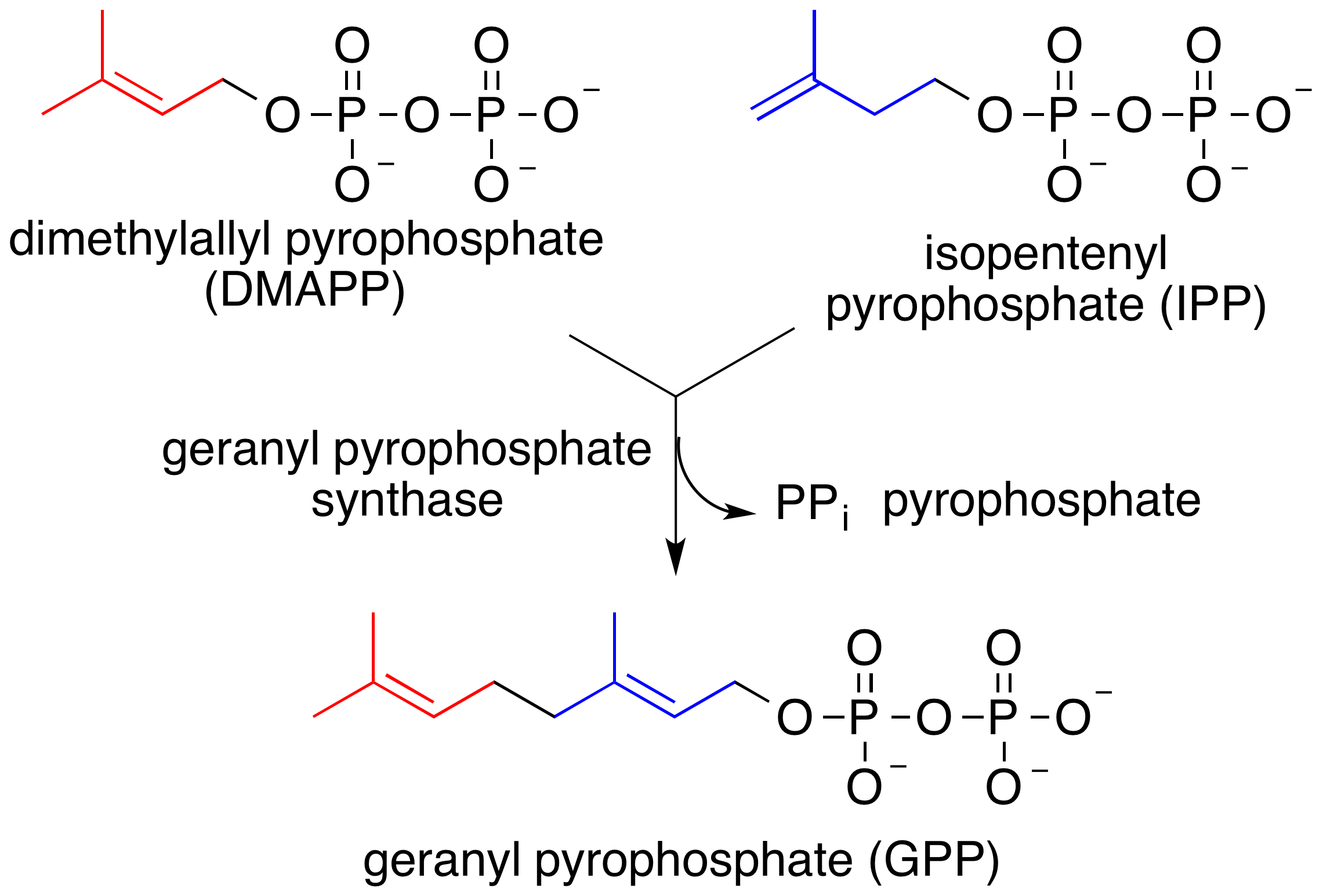 The synthesis of geranyl pyrophosphate from dimethylallyl pyrophosphate and isopentenyl pyrophosphate catalyzed by geranyl pyrophosphate synthase